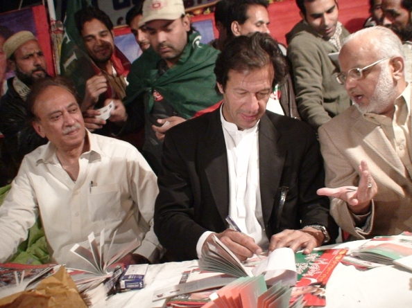 Picture of imran khan giving autographs at membership camp of Pakistan Tehreek-e-Insaf. It has been taken by the Administration of who have allowed to use it.